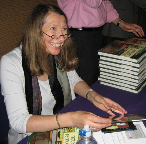 Sarah Susanka signs books at the Hanley Wood Remodeling Show Big 50 Event in Baltimore, September 2010.